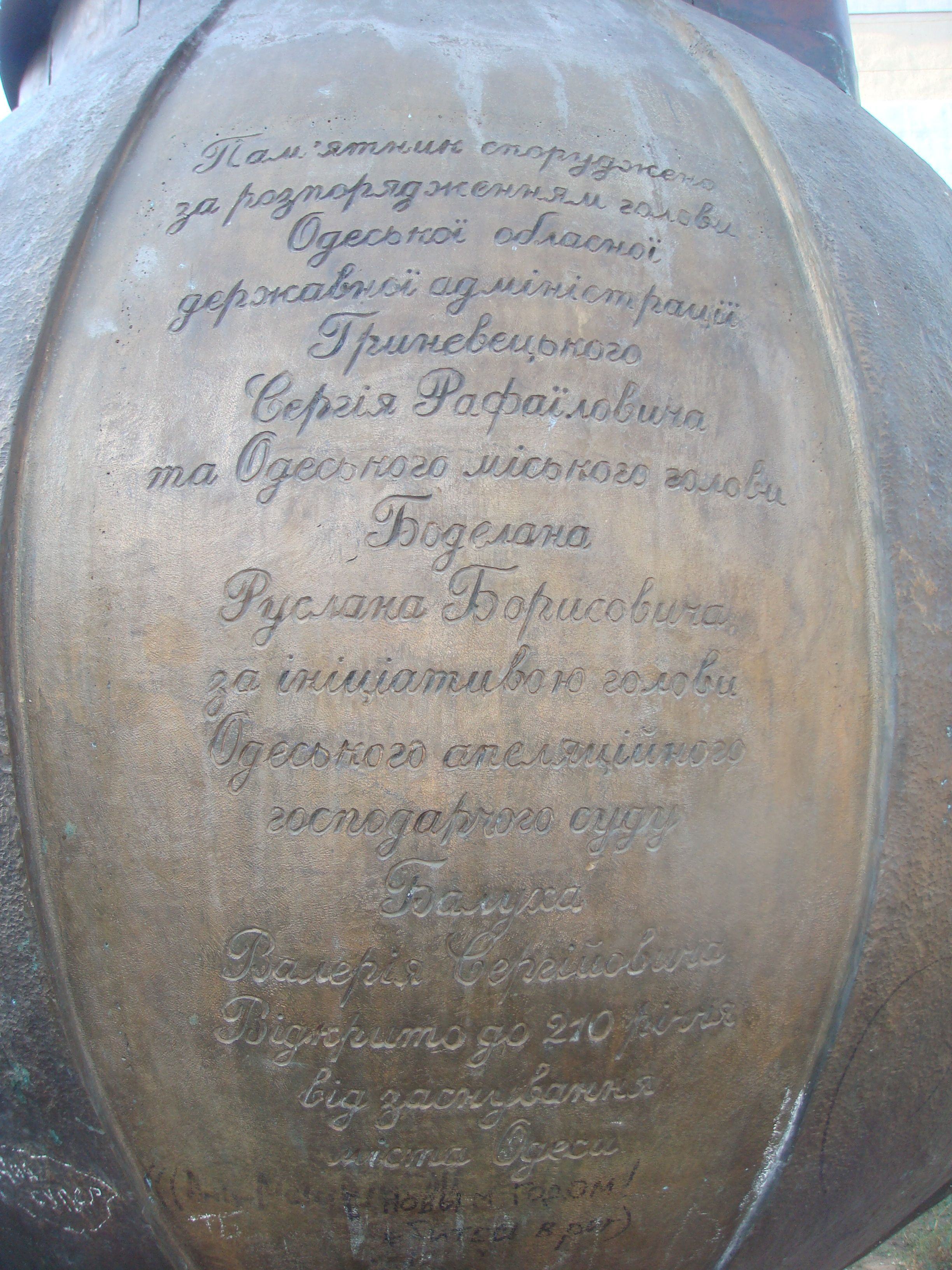 List of Odessa city official, contributed to erection of the monument.